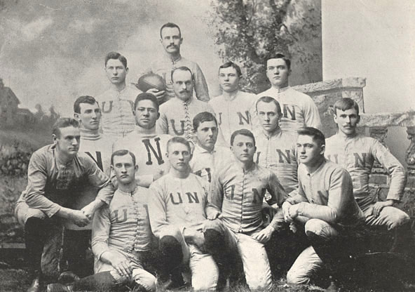 Low-resolution image of the 1891 Nebraska Cornhuskers football team photo.